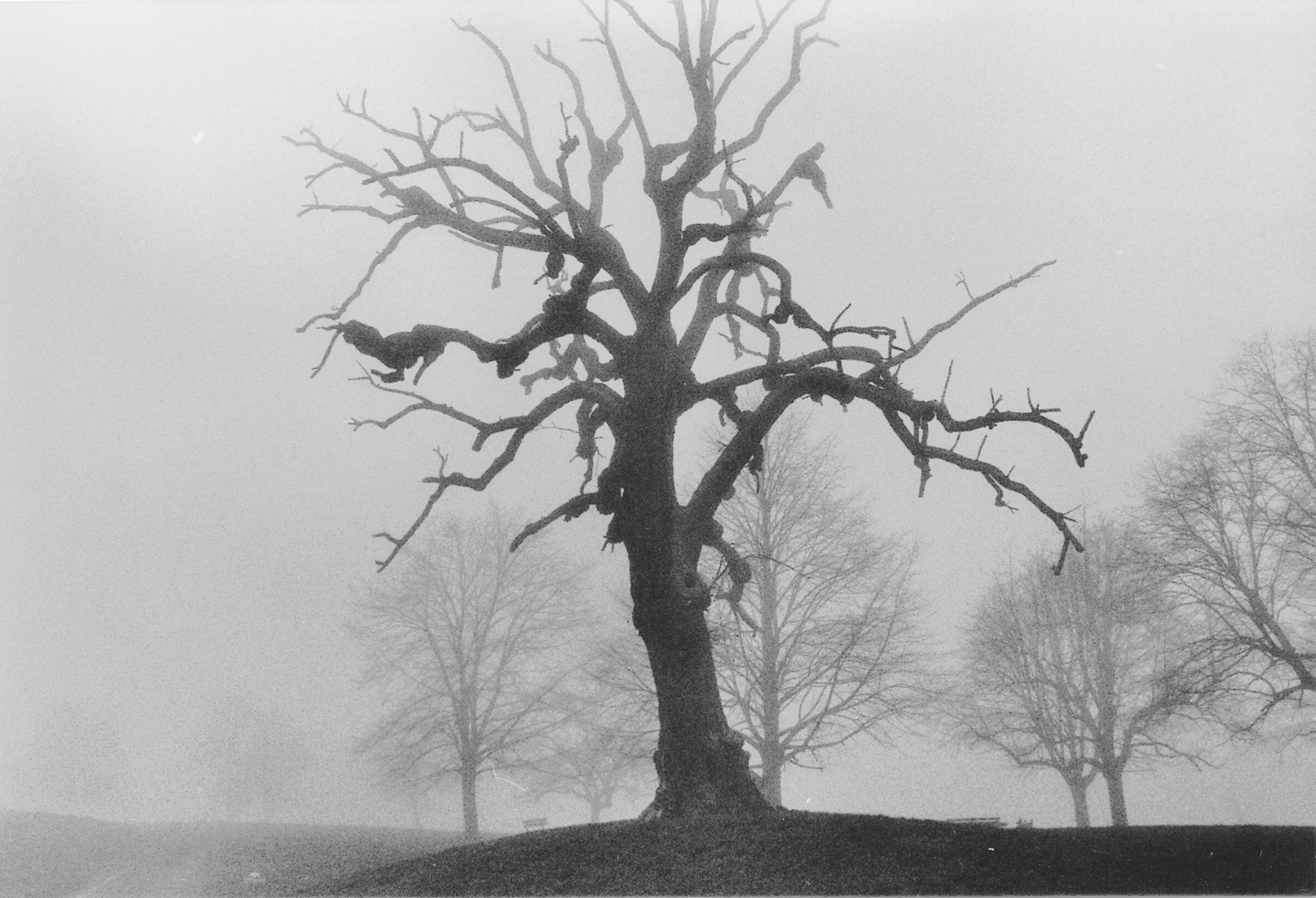 Belsen linden